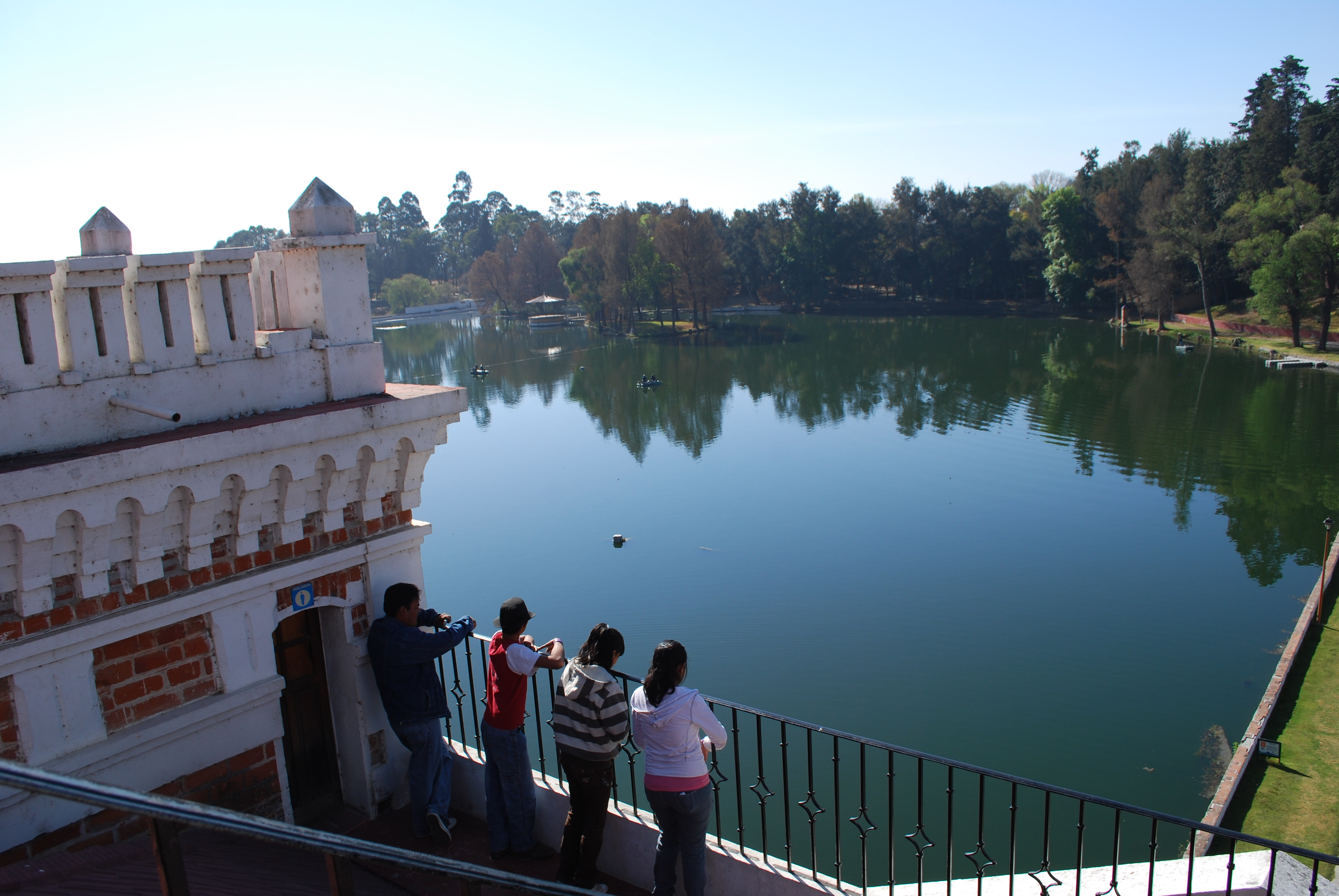 Overlooking the dam at the Chautla Hacienda from the English style residence. In San Salvador el Verde, Puebla, Mexico